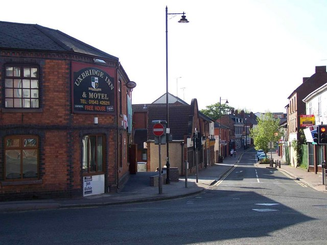 The Uxbridge Inn and Market Street, Hednesford, near to Hednesford, Staffordshire, Great Britain.